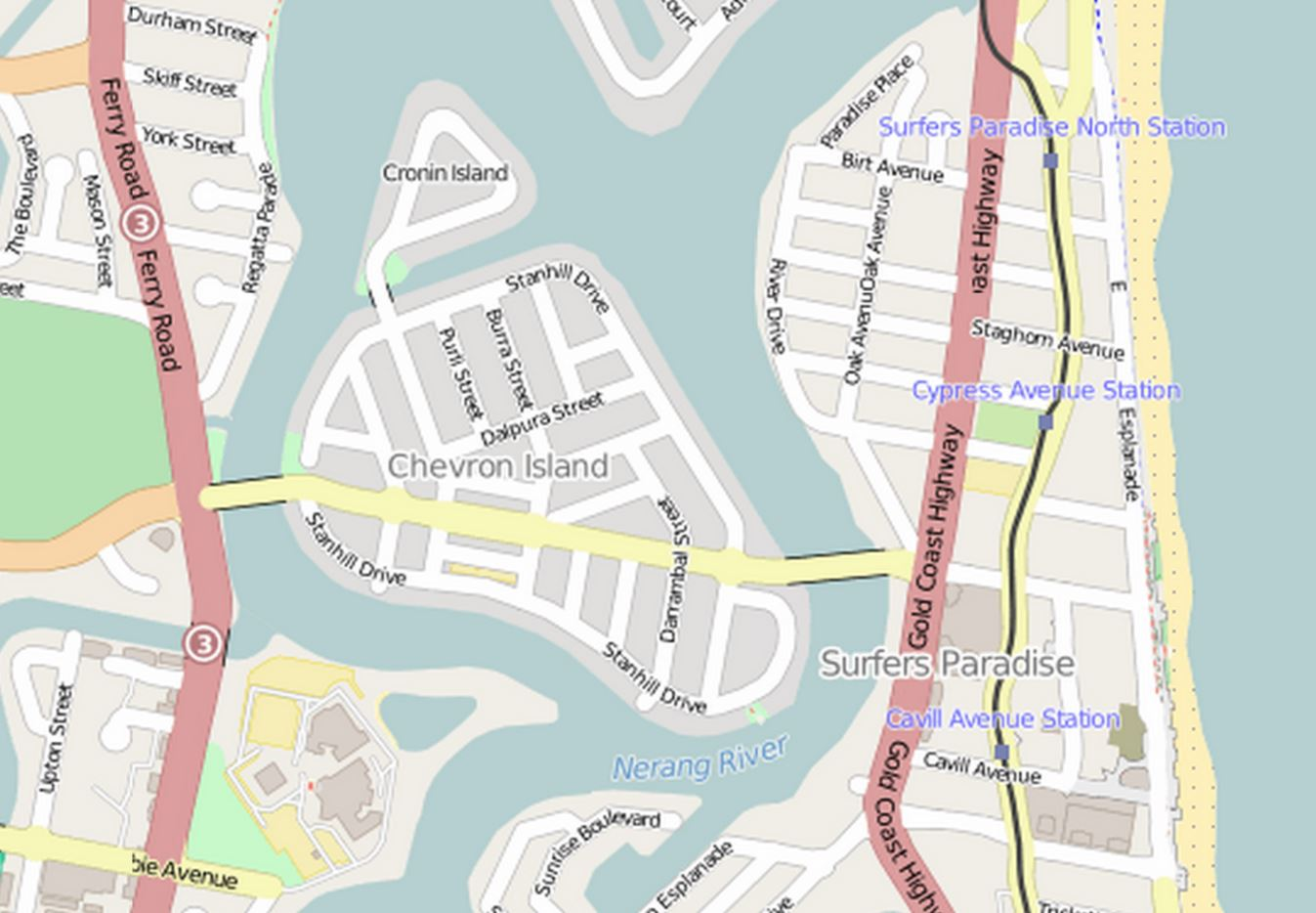 Chevron Island from Open Street Map, 2015